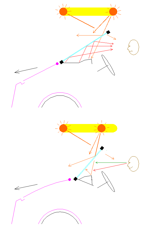 Who created this image? Stef Breukel inventor of the world arm lamp Who owns the copyright to this image? Stef Breukel did. Where did this image come from? Stef Breukel donated it to wikipedia.